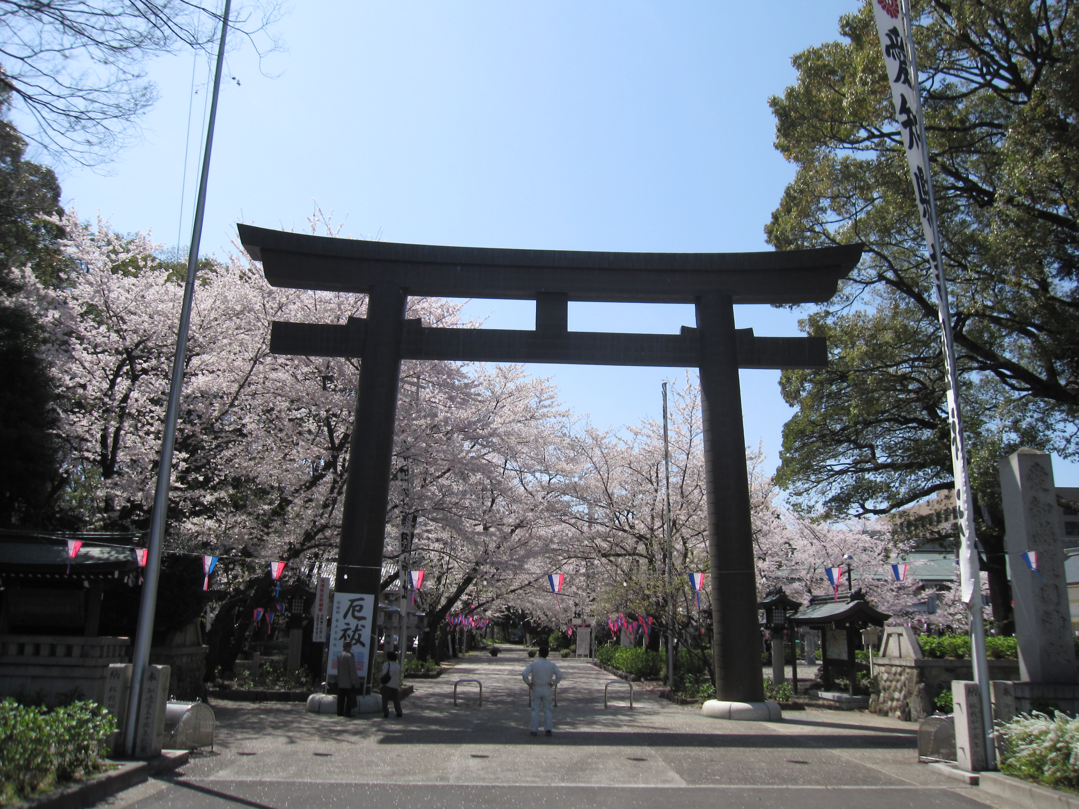 Aichi Prefecture Gokoku Shrine in the Sannomaru area, next to Nagoya Castle.